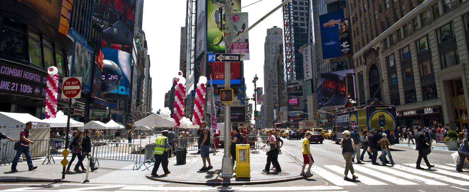 El especialito box in timesquare